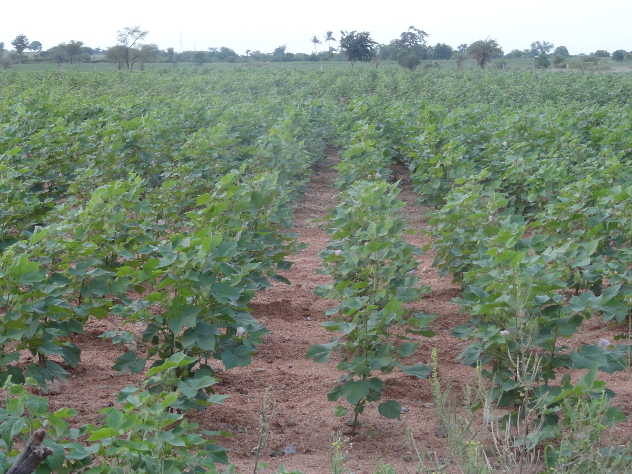 BT cotton crop. picture taken on 9.8.13 near nagarjuna sagar